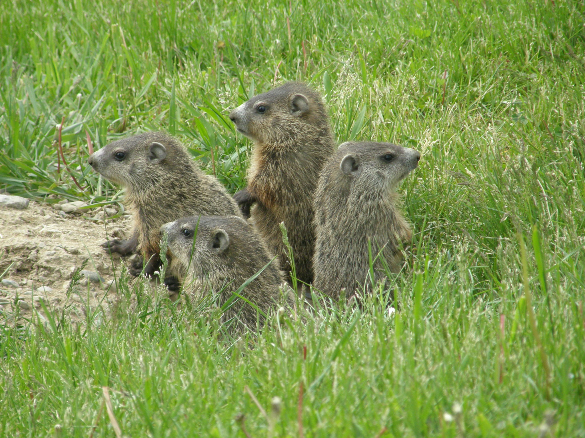 Marmota monax. A litter of four baby groundhogs.